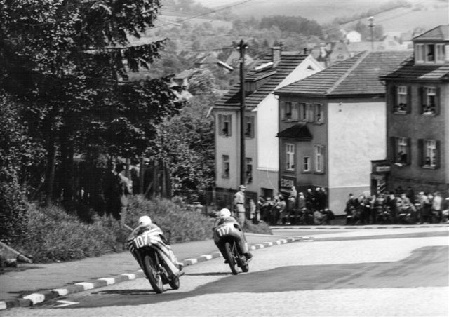 250 ccm-race 1962 at St. Wendel's city circuit. Braune and Huber at incline "Tholeyer Berg" (8,45% slope)